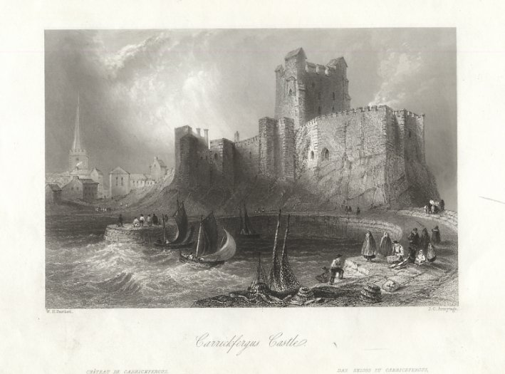 CARRICKFERGUS CASTLE, ANTRIM, IRELAND Total size approx 20 x 27 cm Engraver: J.C.Armytage Drawn by: W.H.Bartlett Published by: James S. Virtue circa 1840 for The Scenery and Antiquities of Ireland, by N.P.Willis and J.Stirling Coyne illustrated by W.H.Bartlett, Thomas Allom and others